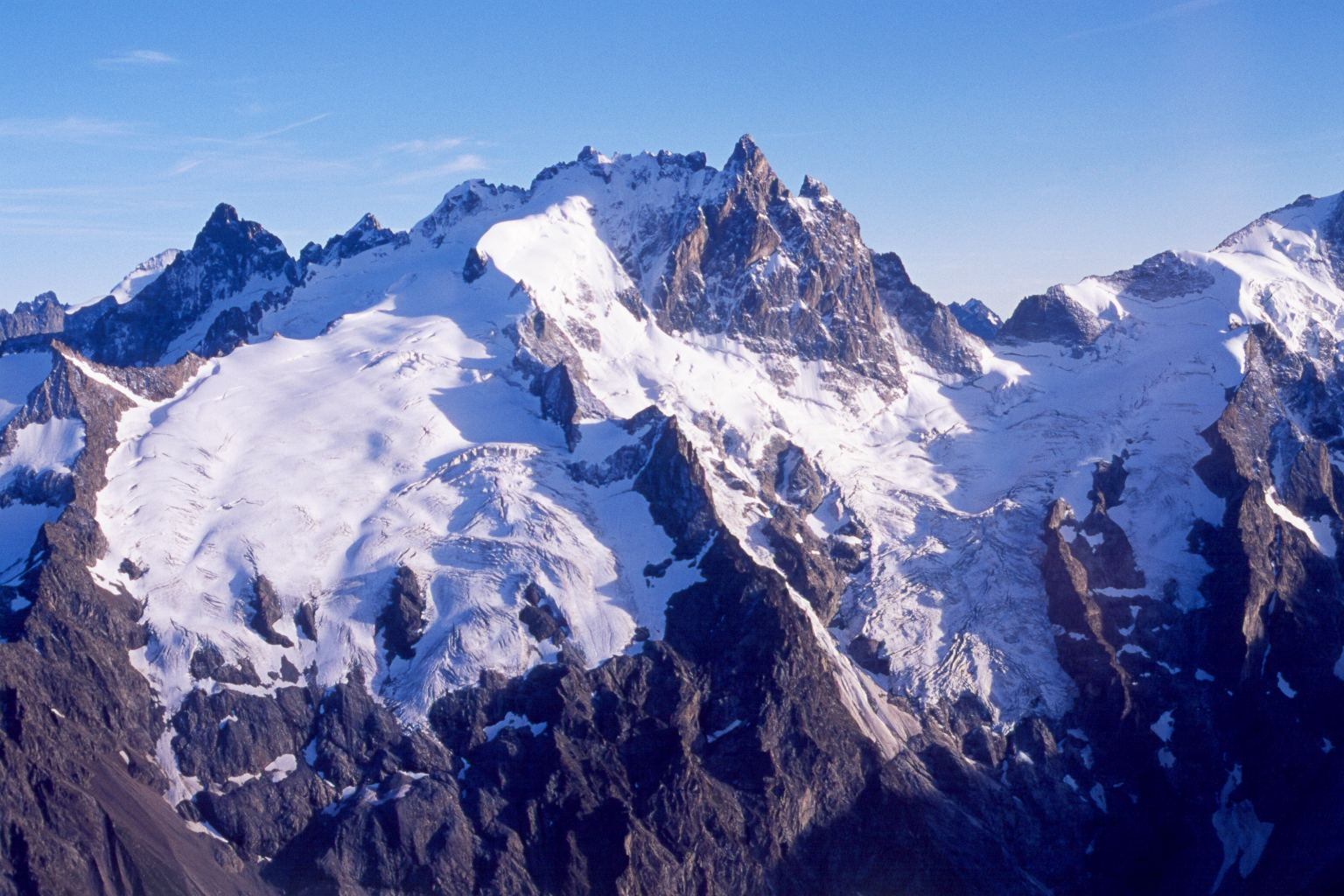 La Meije (massif de l'Oisans, Alps, aerial view from N).